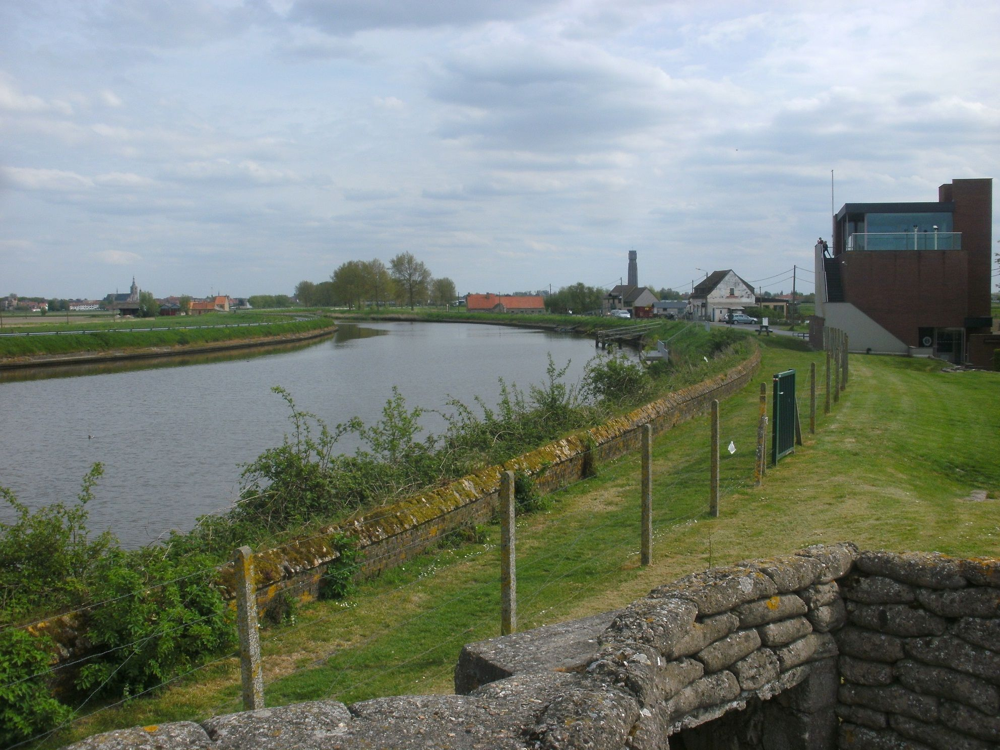 View of the Yser at the Dodengang ("Trench of Death"). Diksmuide, West Flanders, Belgium